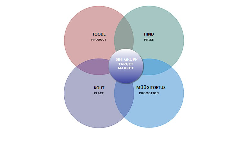 Turundusmeetmestiku skeem